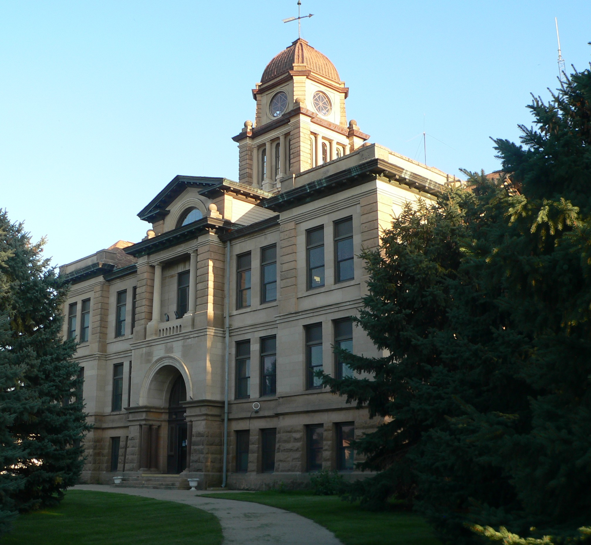 Marshall County, South Dakota, courthouse in Britton, South Dakota; seen from the northwest.